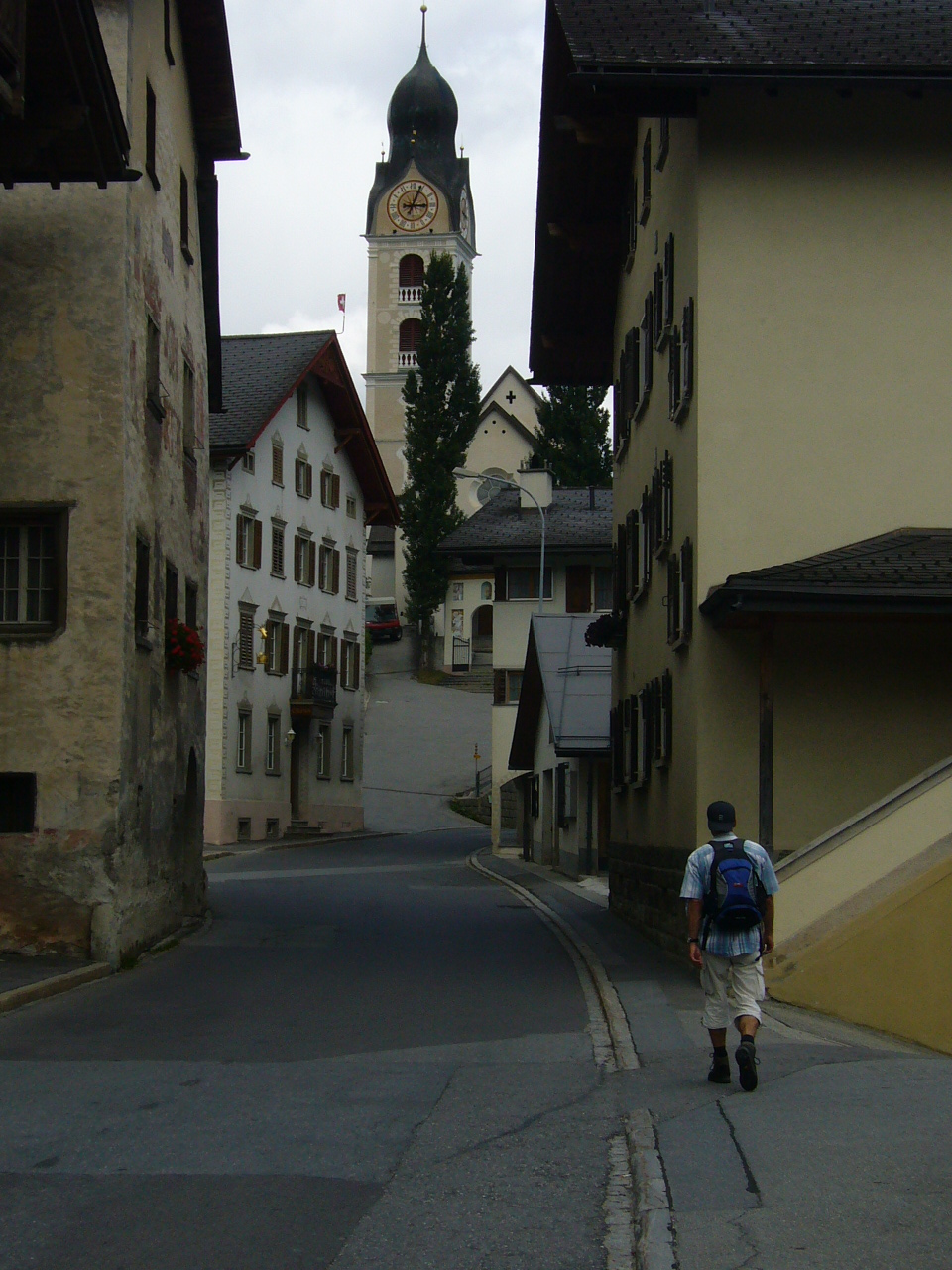 main street of Sumvitg, village in the canton of Graubünden, Switzerland